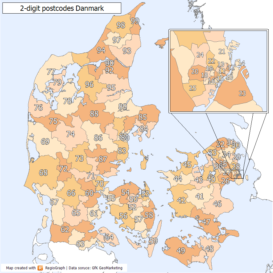 2-digit postcodes Denmark: postcode areas, described through the first two digits of the Danish postcode system (without Bornholm).